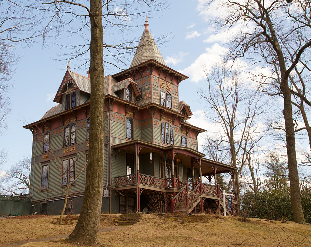 House at 115 Central Avenue This house is known as "The Woodshed"